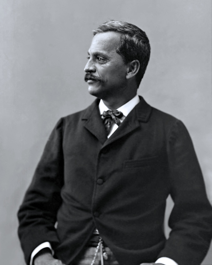 William Pūnohuaweoweoulaokalani White (1859–1925).